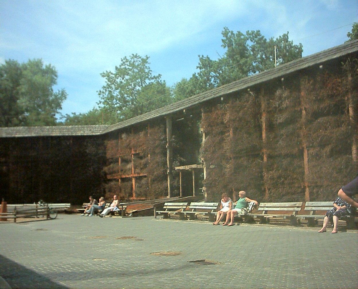 Konstancin-Jeziorna, Poland.